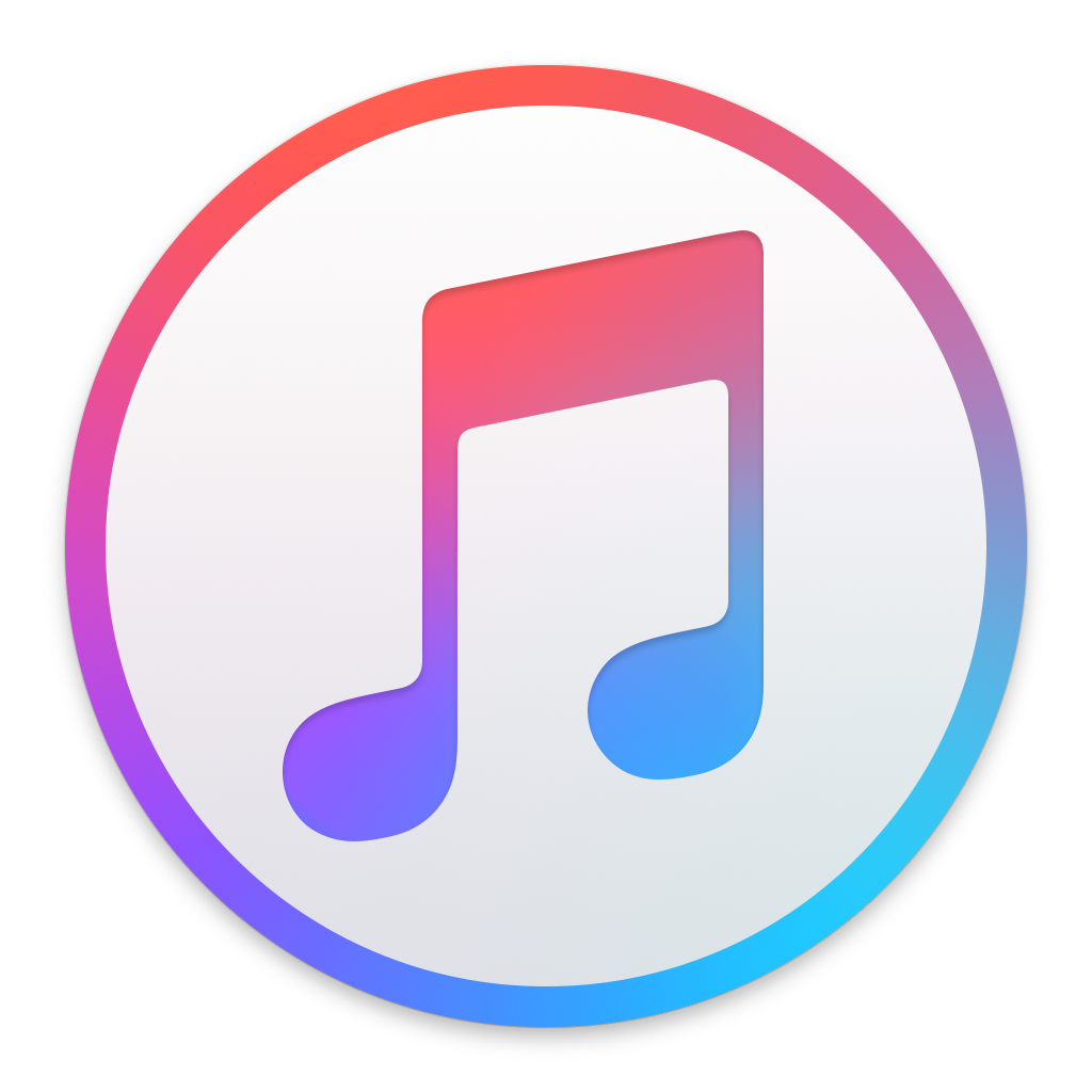 ITunes 12.2 logo since June 30, 2015